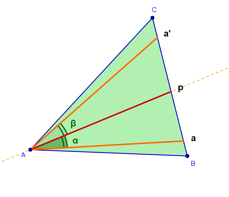 two isogonal lines in a triangle